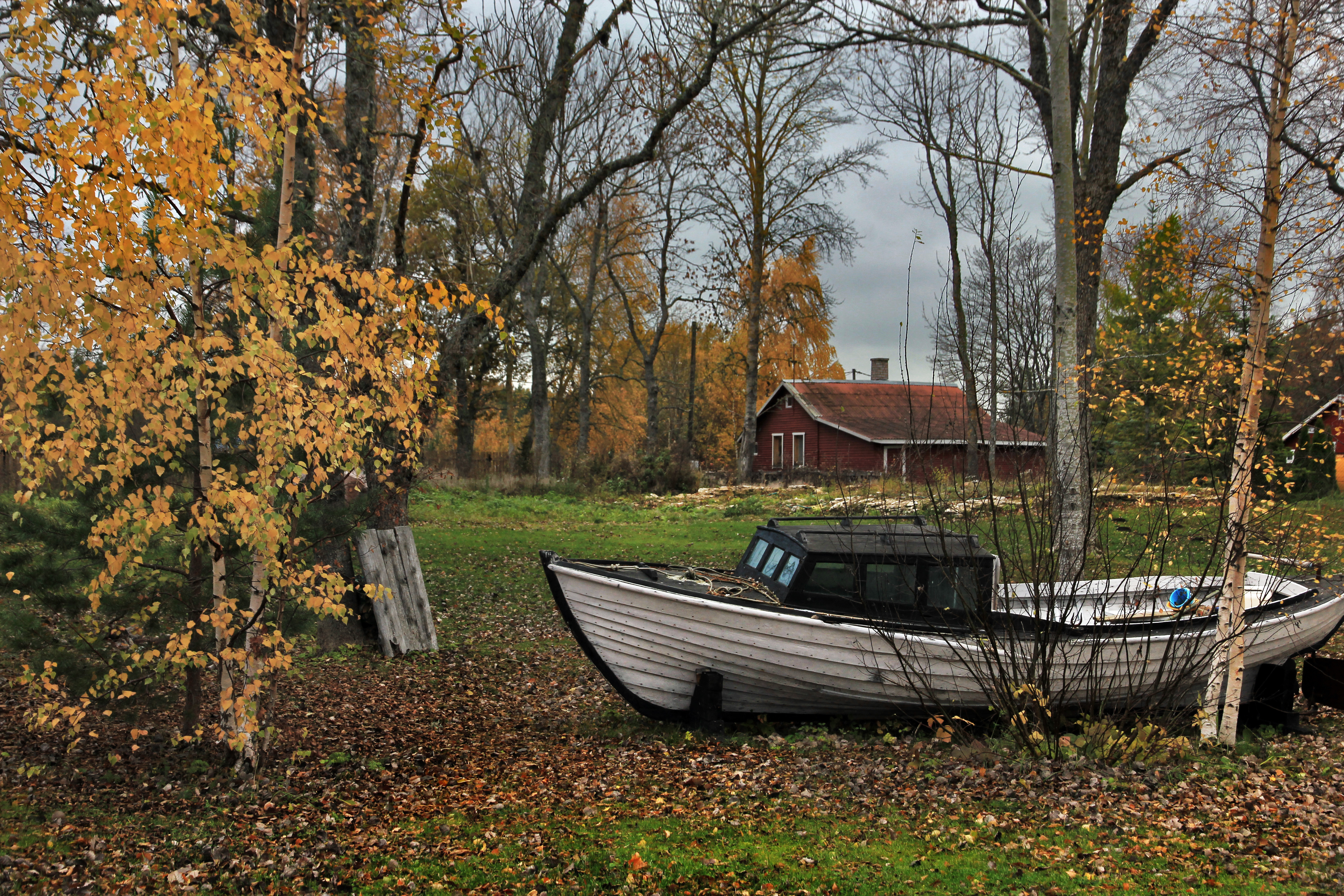 Boat on the bayside Pullapää. Estonia, Haapsalu